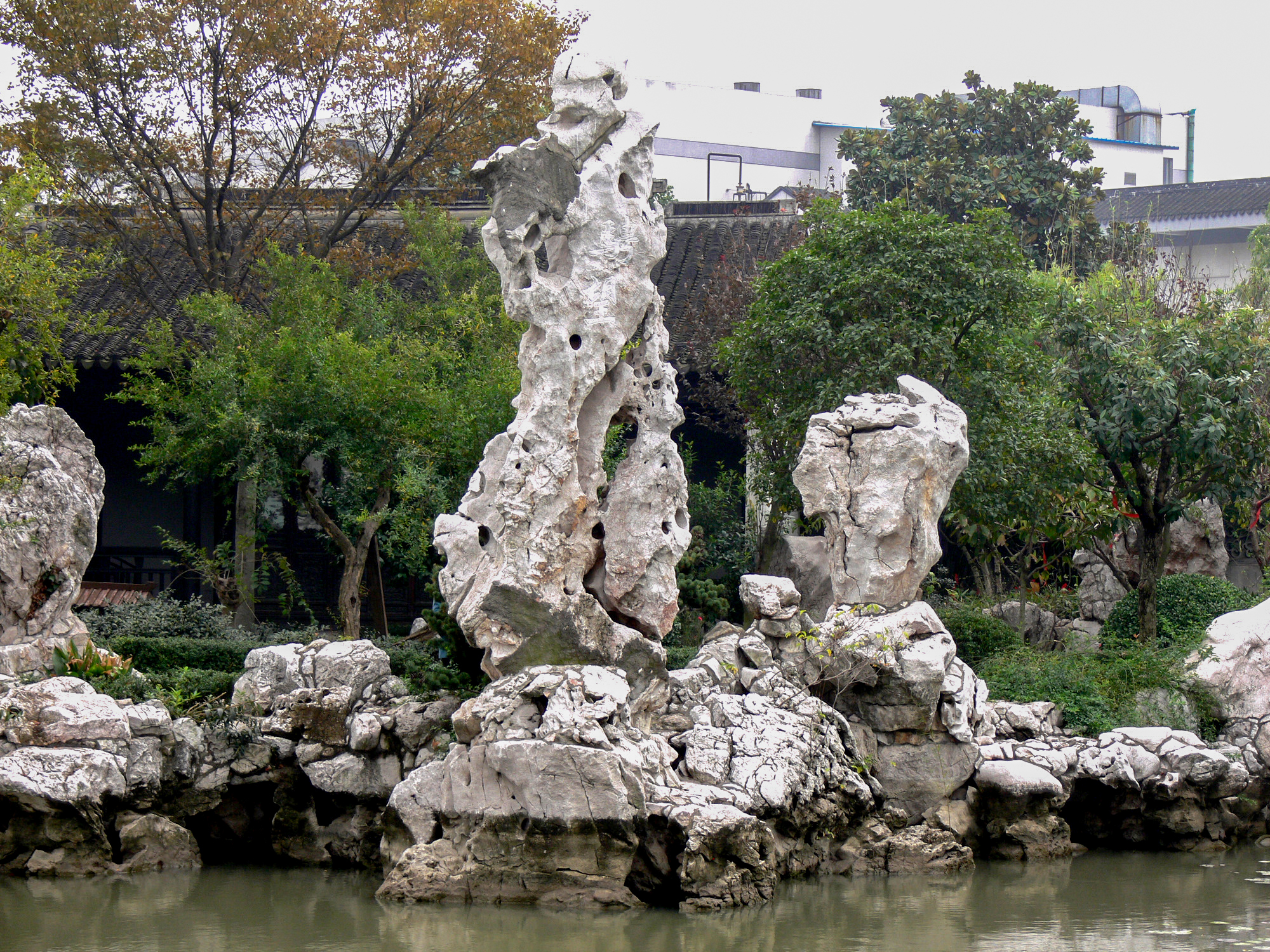 Scholar's rocks in classical garden in Mudu town, Suzhou.